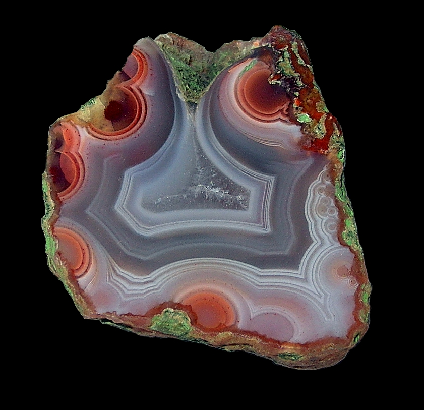 An agate from Płóczki Górne (Sudetes Mts., Poland). The maximum length of the specimen is 3.5 cm